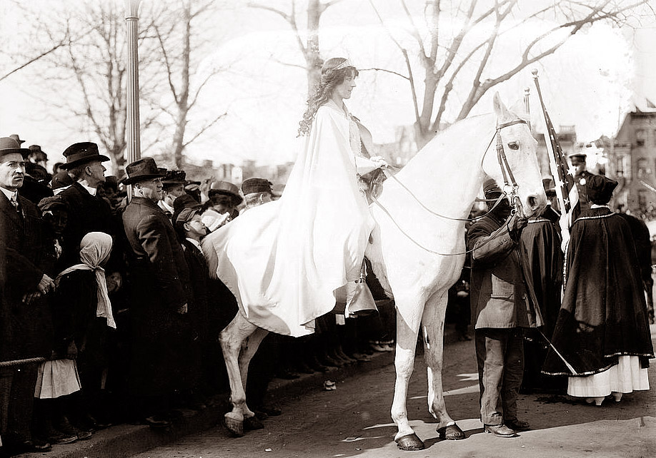 Inez Boissevain, wearing white cape, seated on white horse at the suffrage parade in Washington, D.C., 1913.